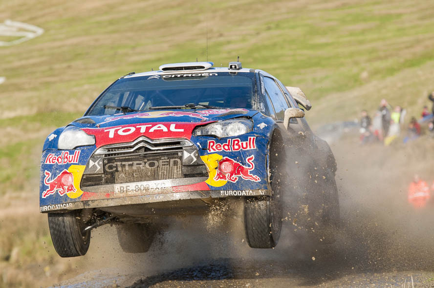 Wales Rally GB 2011 Citroen DS3 WRC,Citroen Total WRT,Dyffryn-castell,GBR,Großbritannien,Julien Ingrassia,Motorsport,Rally,Rallye,SS16,Sebastien Ogier,Sweet Lamb 2,WP16,Wales,Wales Rally GB